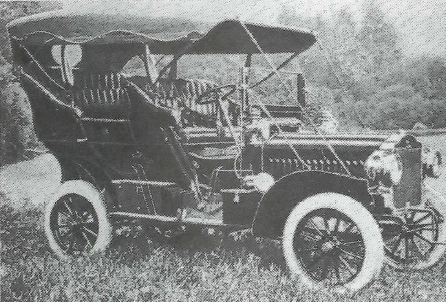 1907 Lambert model F automobile